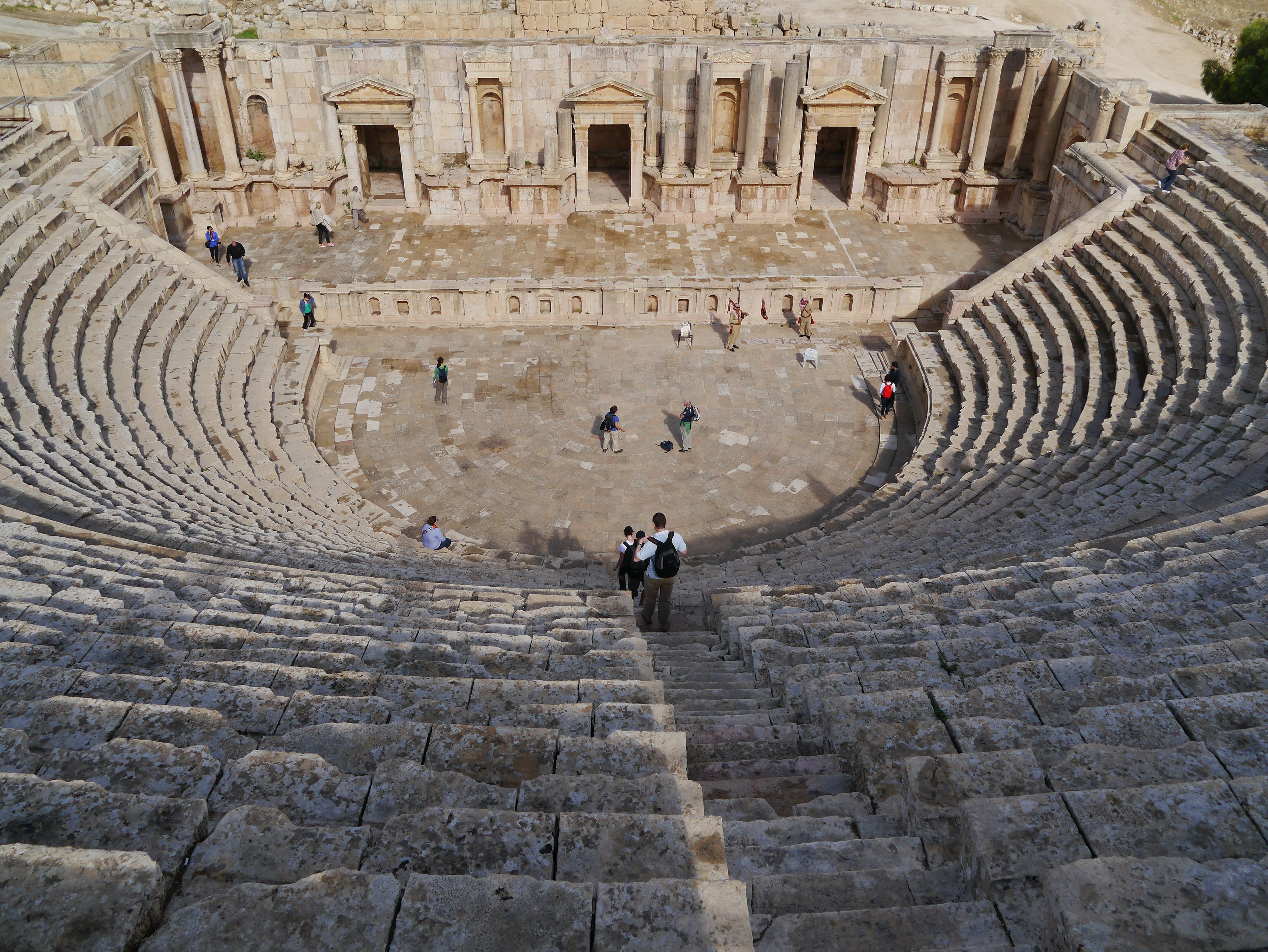 South Theatre, Gerasa/Jerash, Northwestern Jordan